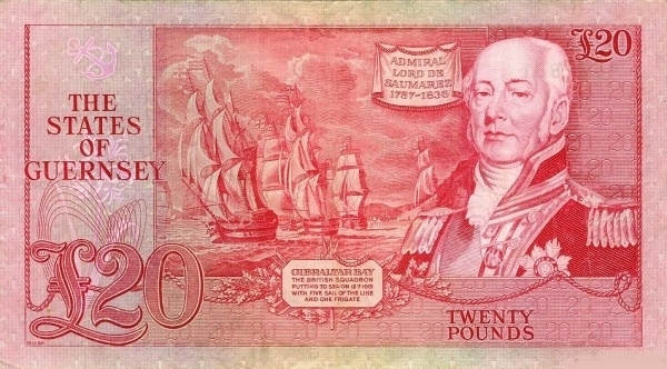 States Treasurer of The States of Guernsey 1980-1989